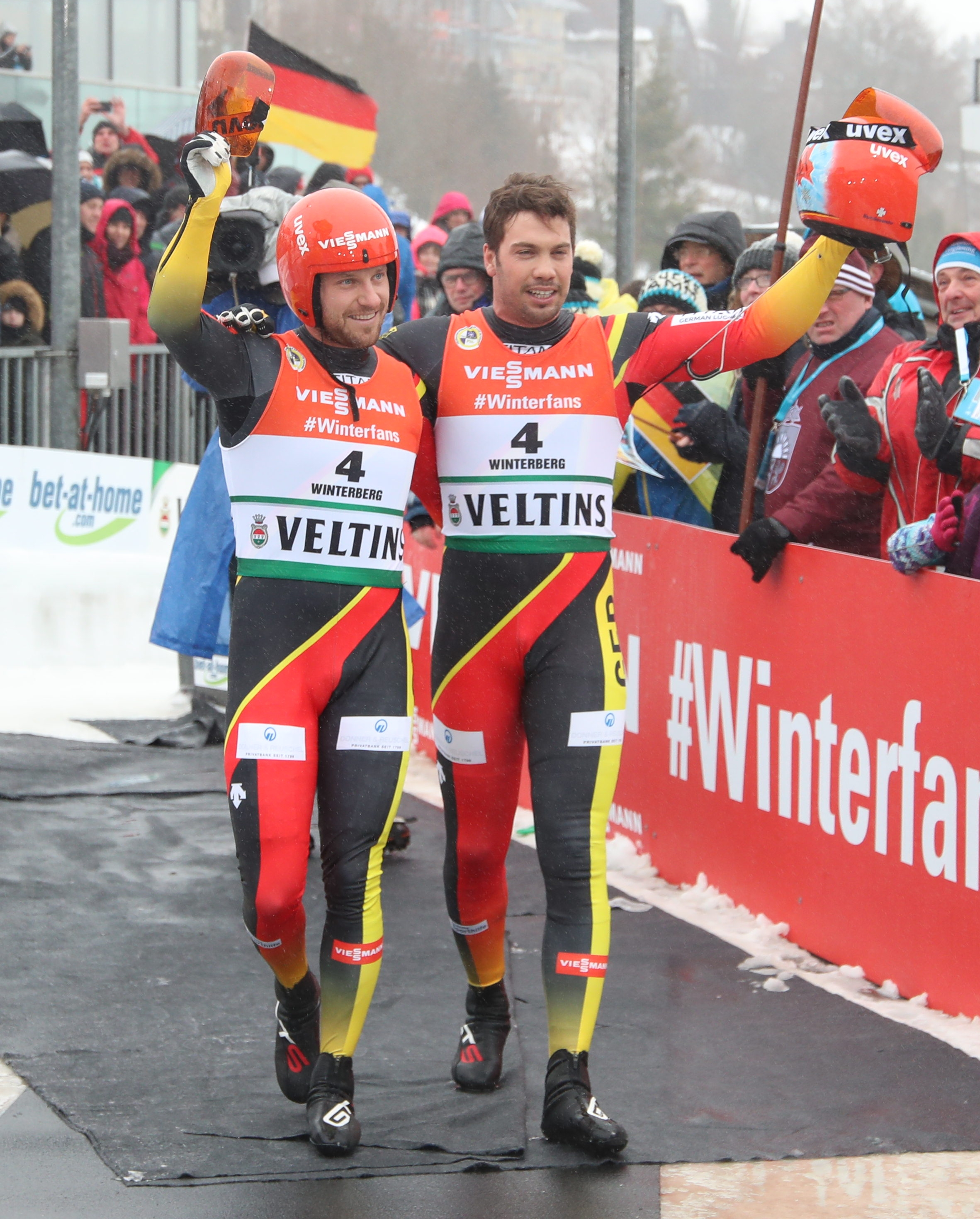 Doubles race at the FIL World Luge Championships 2019 in Winterberg